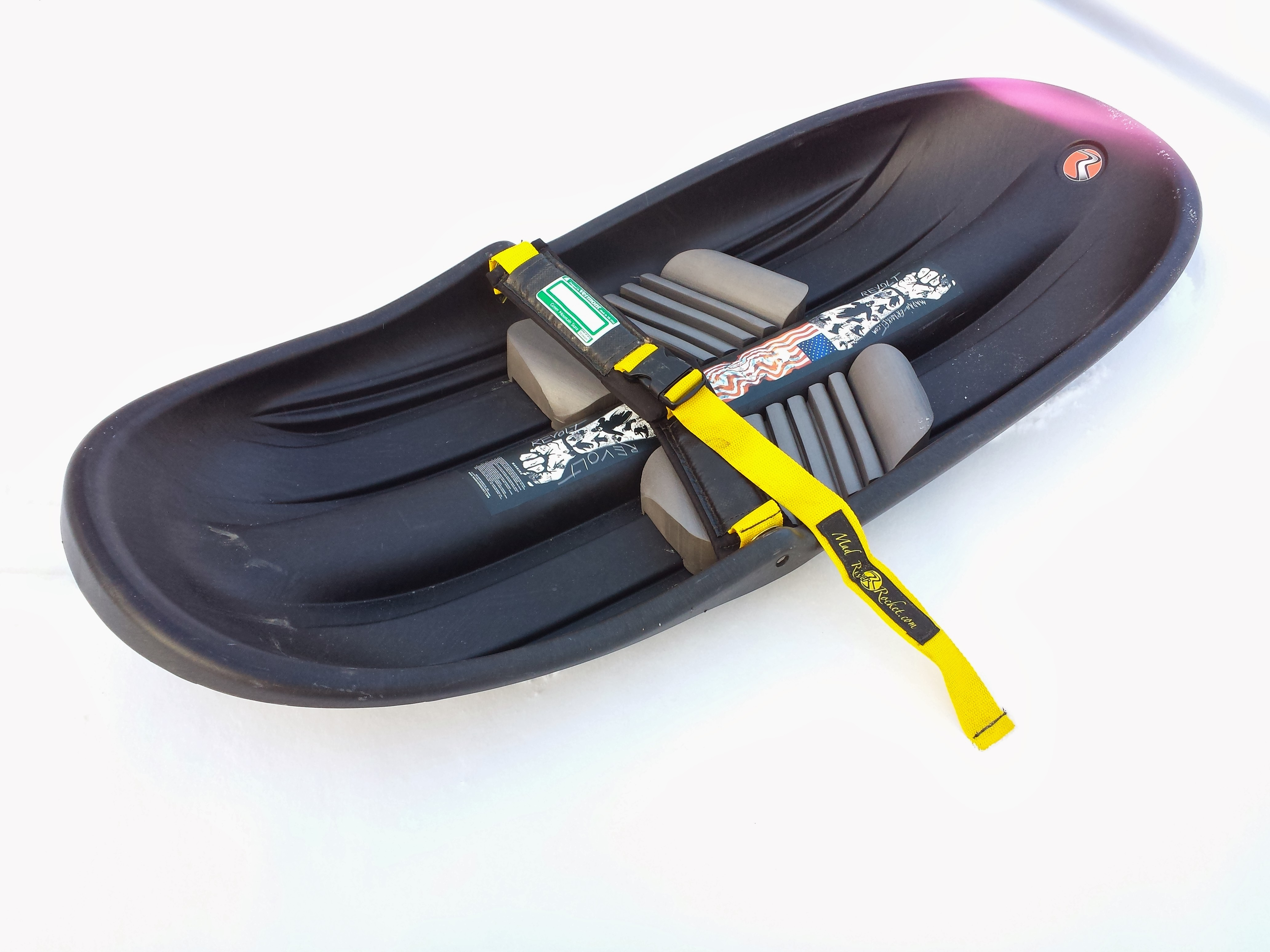 This is the photo of the kid's size Mad River Rocket sled, known as a Stinger. It is a backcountry sled, with kneepads and a seatbelt to give sledders complete control over the sled. The white background was originally a snow background made by adjusting levels.